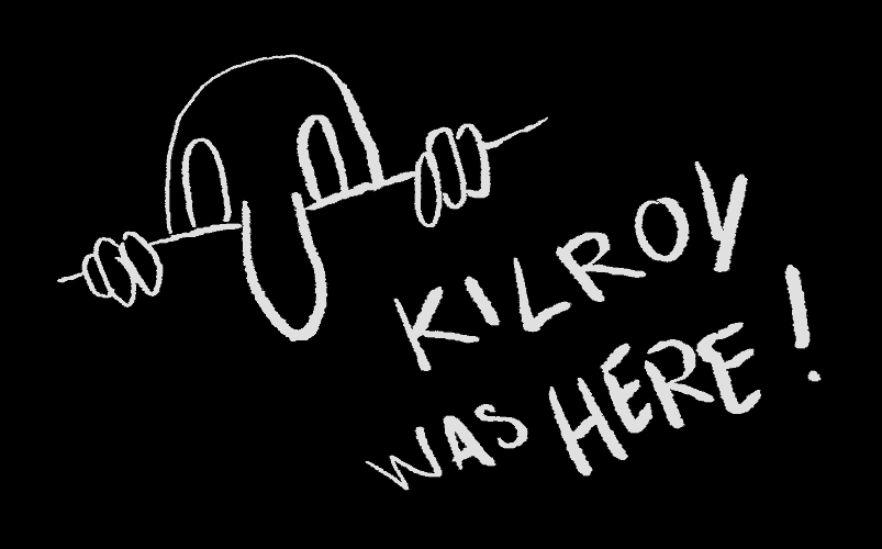 "Kilroy was here". Such graffitis were left by a mysterious GI during the Battle of Normandy. Thousands of "Kilroy was here" drawings were made in the most risky places. After the war, it could be found on many us army battle fields and in many other places in the world.